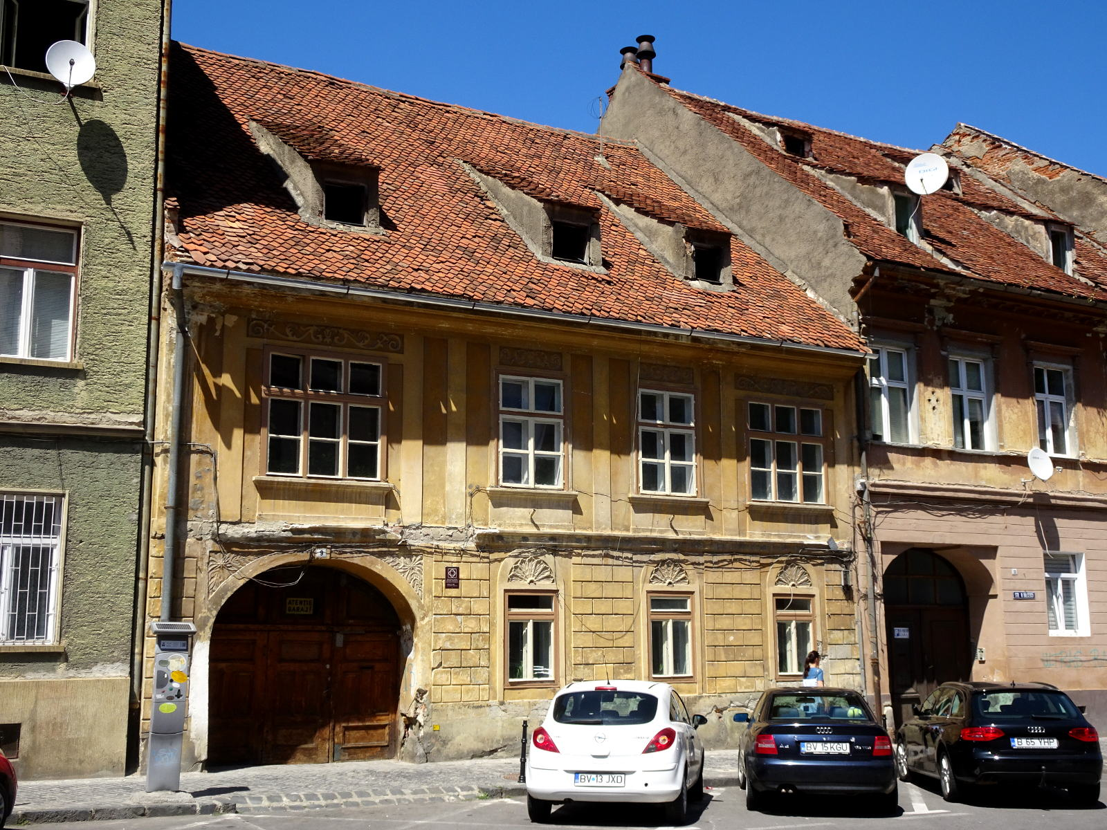 House in Bălcescu street, Brașov